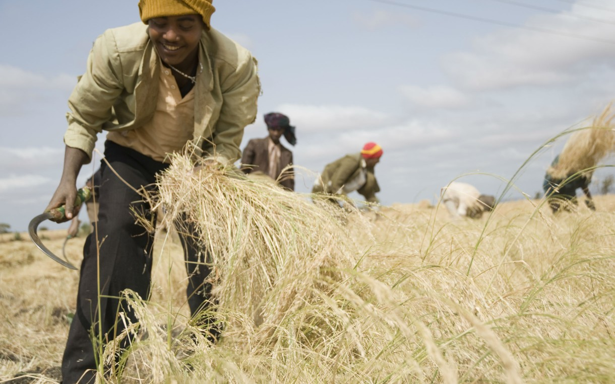 This is an image of "African people at work" from Ethiopia